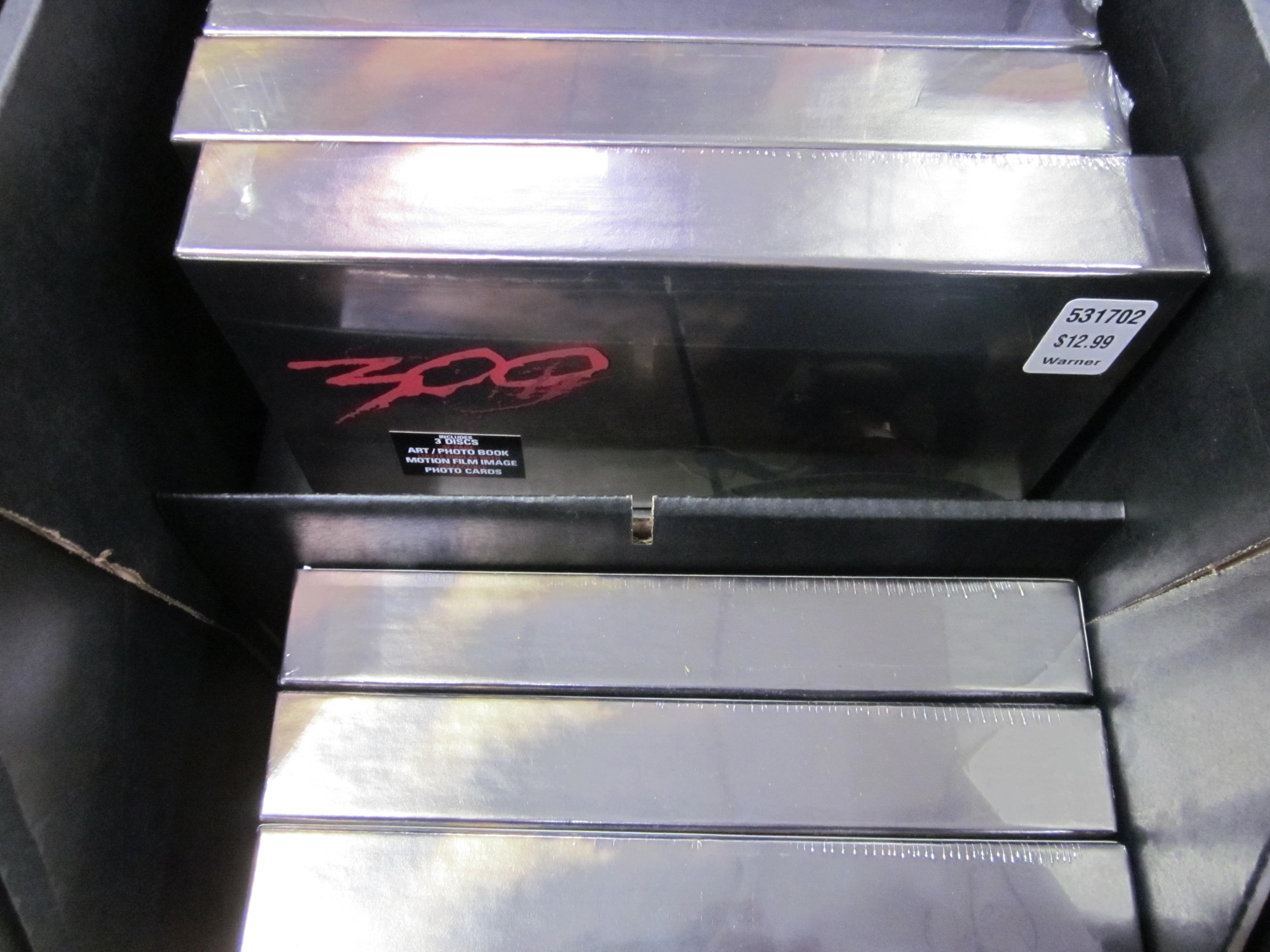 The 300 Limited Collector's Edition at Costco in South San Francisco, California on El Camino Real.